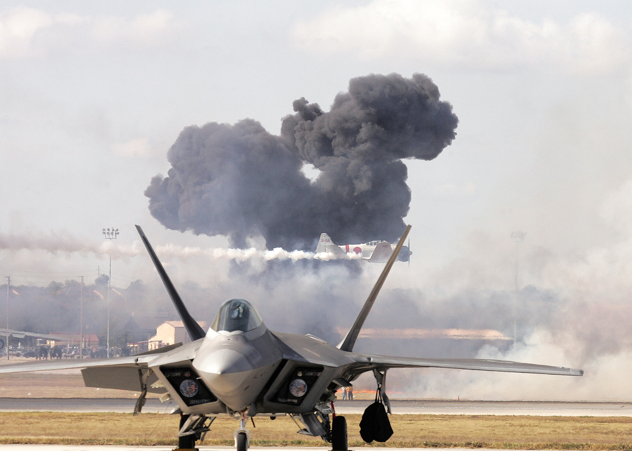 The Pearl Harbor reenactment of "Tora! Tora! Tora!" fills the sky with smoke as a Japanese Zero streaks by behind an F-22 Raptor during AirFest 2008 at Lackland Air Force Base, Texas.